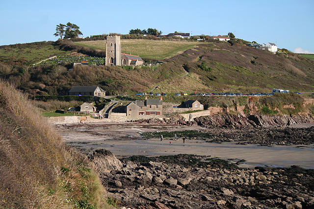 Wembury: St Werburgh’s church and Wembury beach With the old mill, now the beach cafe, open in the summer months. Seen from the South West Coast Path